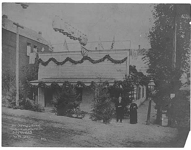 Caption on image: The Old Yesler Home, cor. Front and Jefferson Sts., July 4th, 1883, by Peiser. 243 . Peiser 243 Subjects (LCTGM): Yesler, Henry L. (Henry Leiter), 1810-1899; Yesler, Sarah, 1822-1887; Yesler, Henry L. (Henry Leiter),1810-1889--Homes & haunts--Washington (State)--Seattle; Yesler, Sarah, 1822-1887--Homes & haunts--Washington (State)--Seattle; Dwellings--Washington (State)--Seattle; Street lights--Washington (State)--Seattle Despite the caption on the image, this house was at the corner of James, not Jefferson. Jefferson does not reach First Avenue (Front Street): at that time it ended at Second Avenue & Mill Street / Yesler Way; now it cuts off even farther up the hill at Third Avenue.